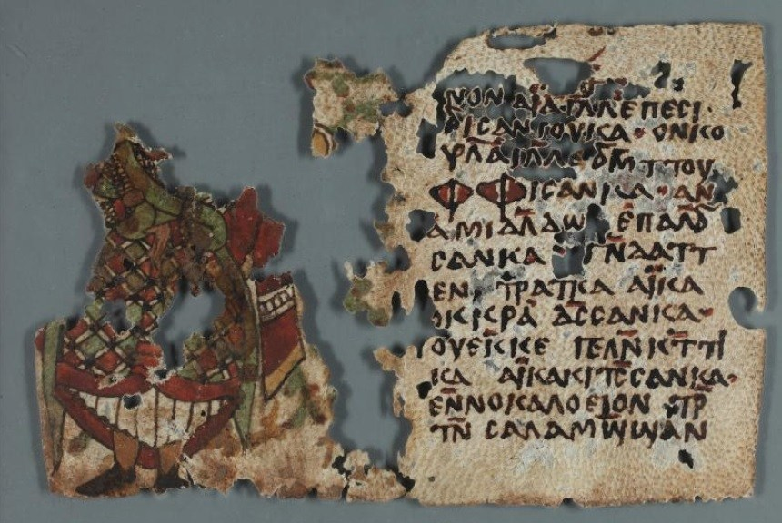 Old Nubian manuscript from Serra East, lower Nubia. On the left side is the depiction of a richly robed person, possibly an eparch (Welsby 2002. "Medieval Kingdoms of Nubia", p=232). The text is about a discourse of Christ with his apostles.